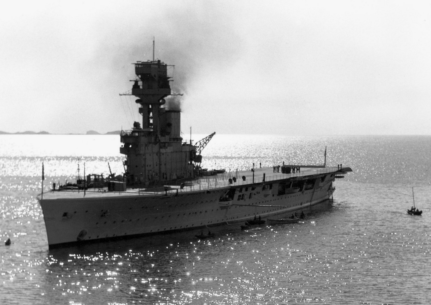 The British carrier HMS Hermes (95) pictured underway off Yantai (known in the West as "Chefoo" then), China.